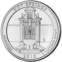 Reverse of the US quarter 2010 "Hot Springs"